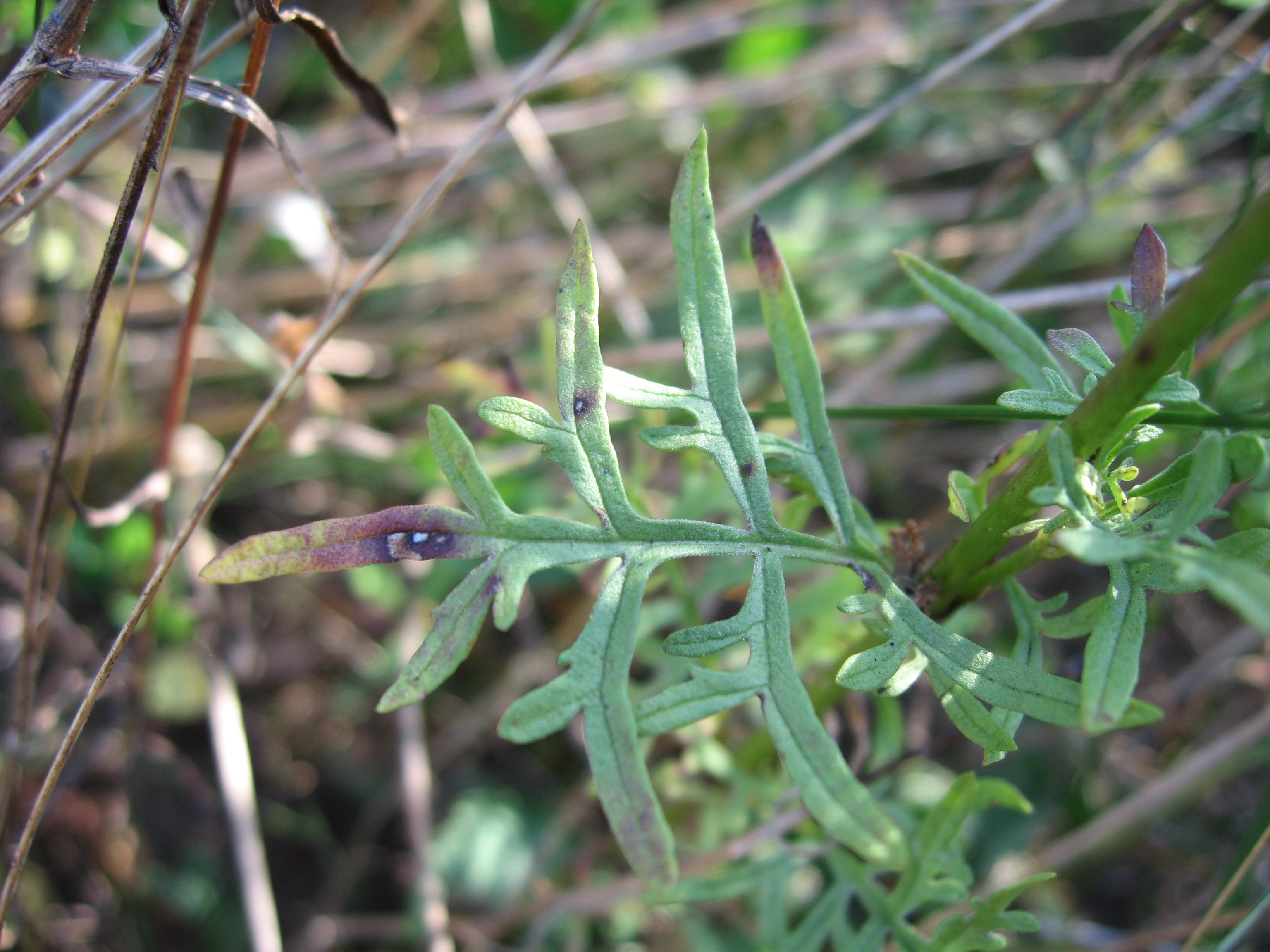 Scabiosa ochroleuca leaf